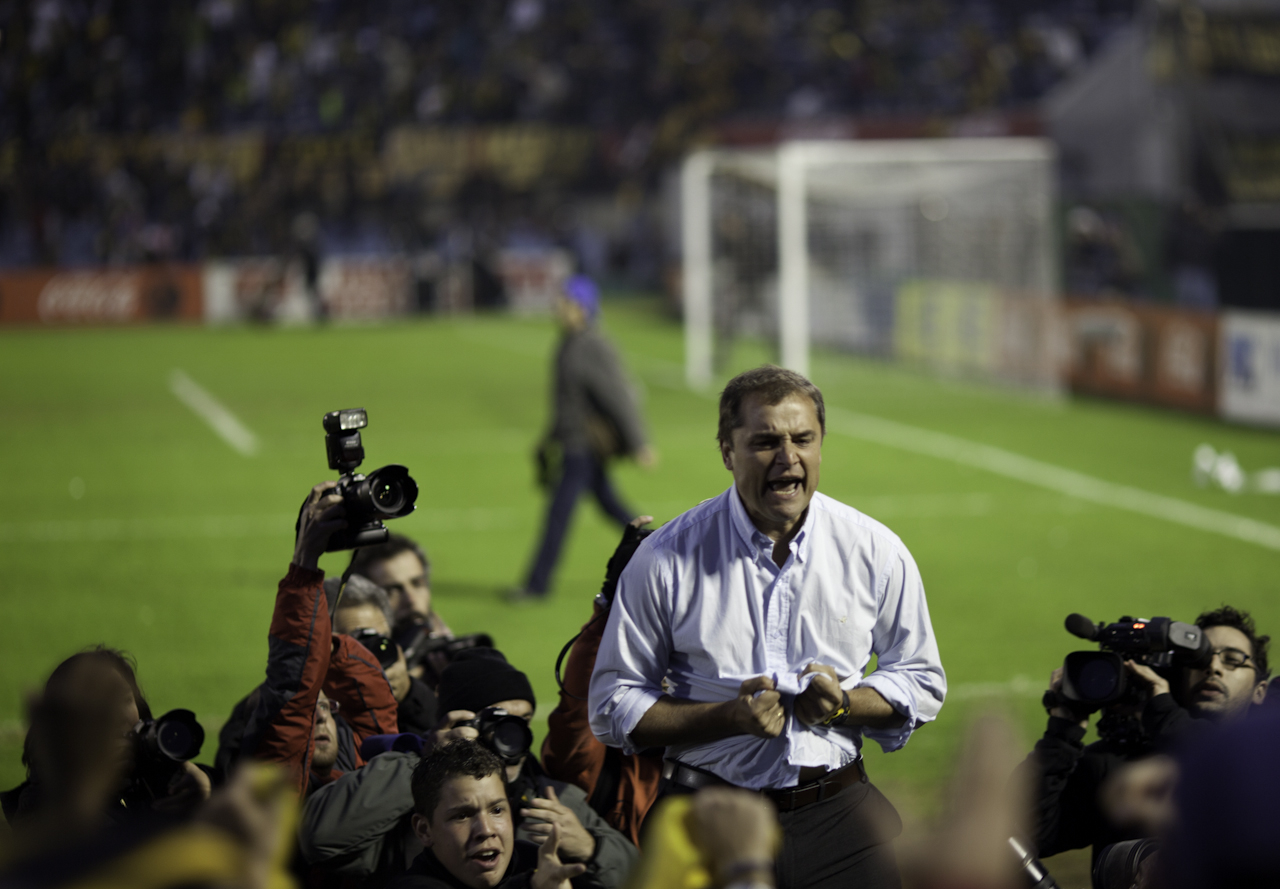 Coach Diego Aguirre celebrating after winning the 2009-10 uruguayan championship.